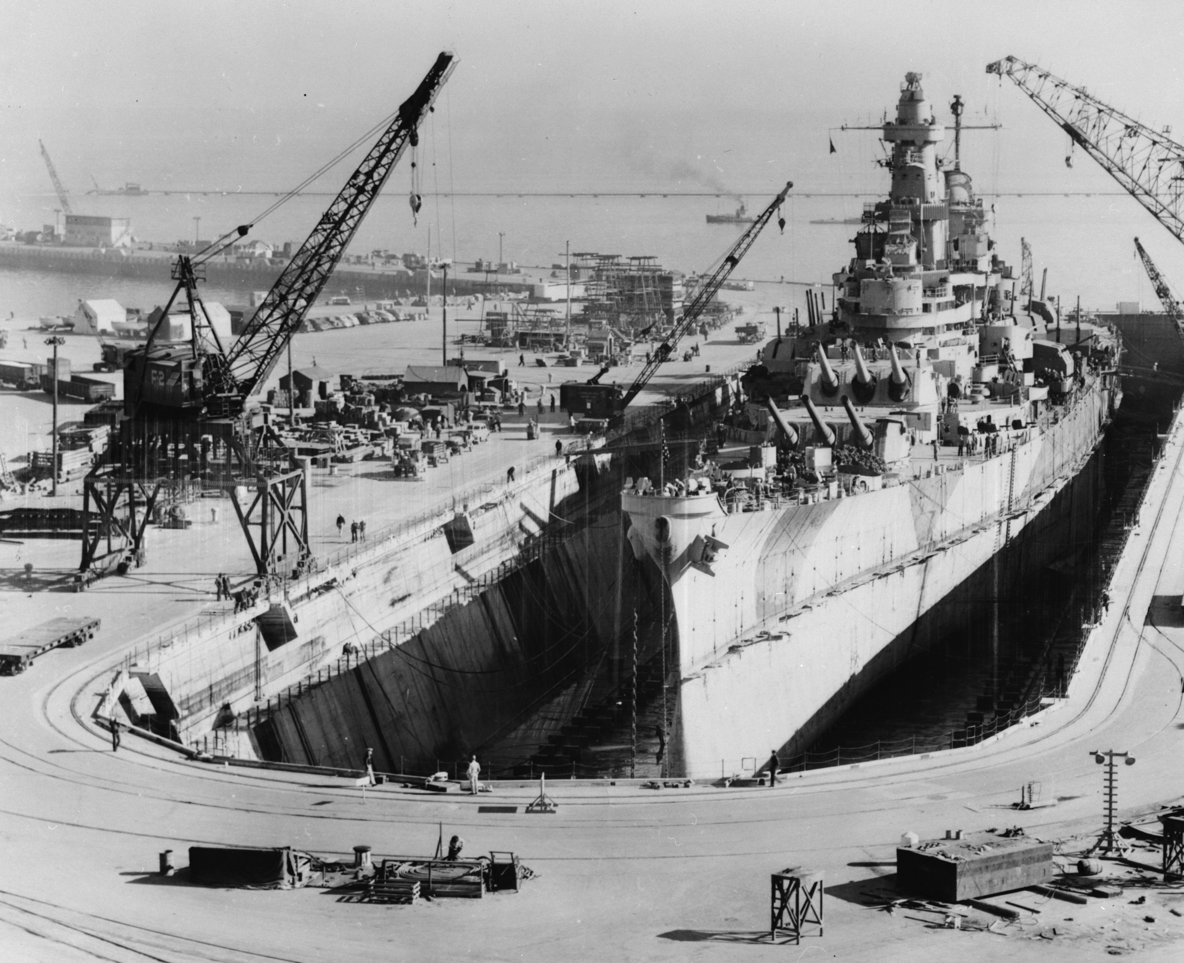 View of battleship USS Iowa in Hunters Point Naval Shipyard, Drydock No. 4, San Francisco, looking northeast